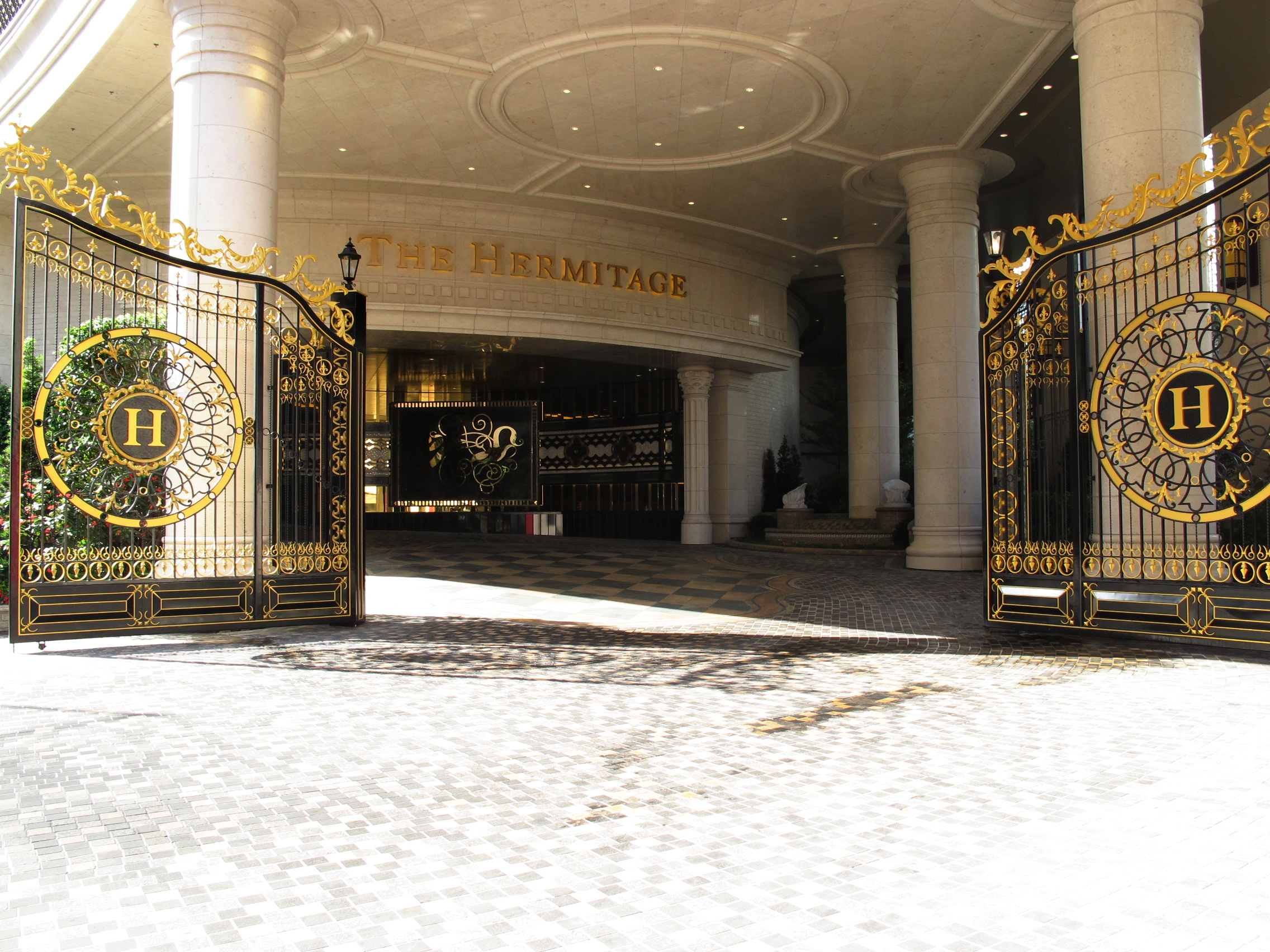 Olympian City Phase3 Carpark Enterance